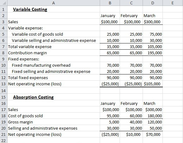 This is a demonstration of a balance sheet with absorption and variable costing.